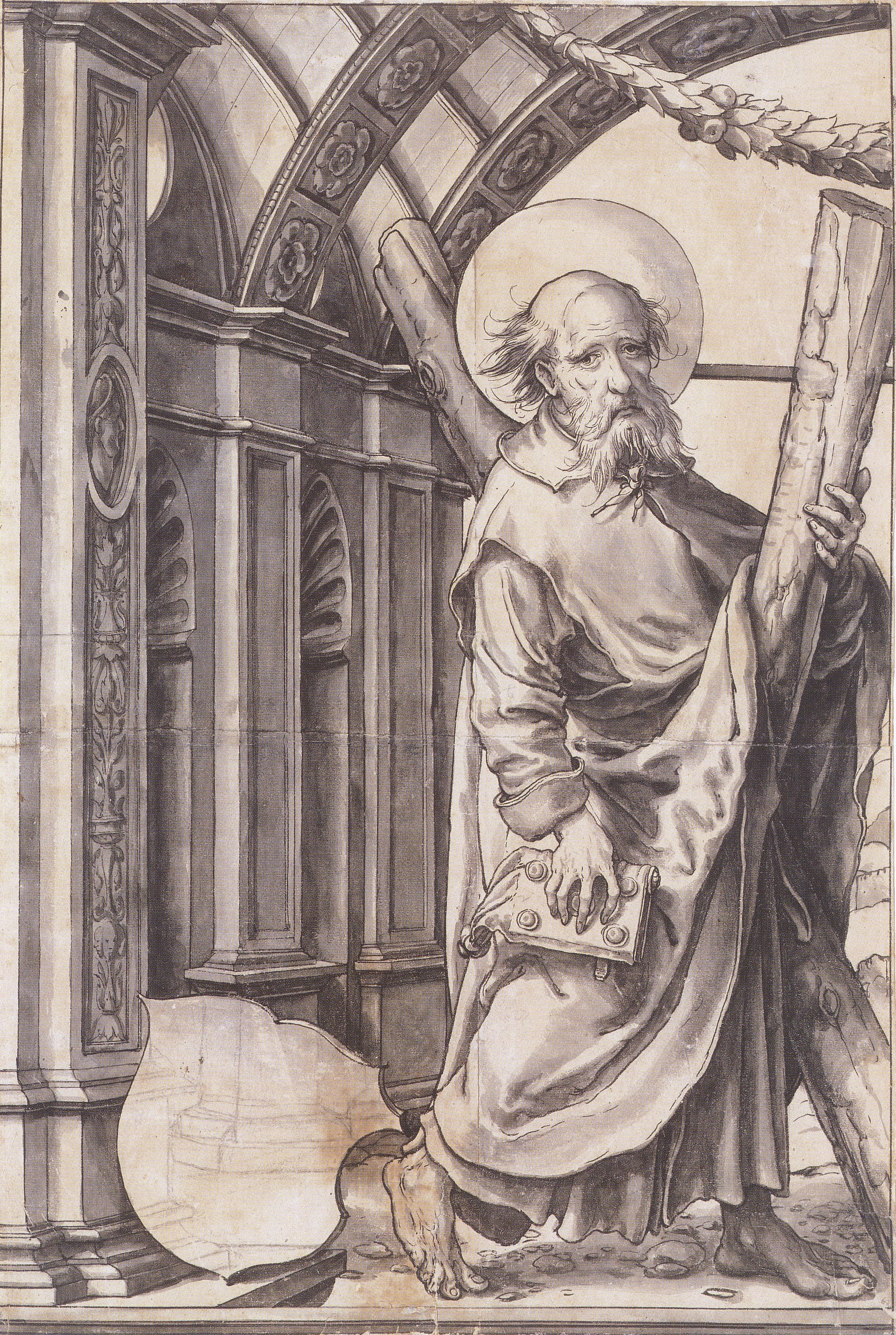 St Andrew, design for a stained glass window. Pen and ink and brush over preliminary chalk drawing, grey wash, 55.6 × 37.1 cm, Kunstmuseum Basel.